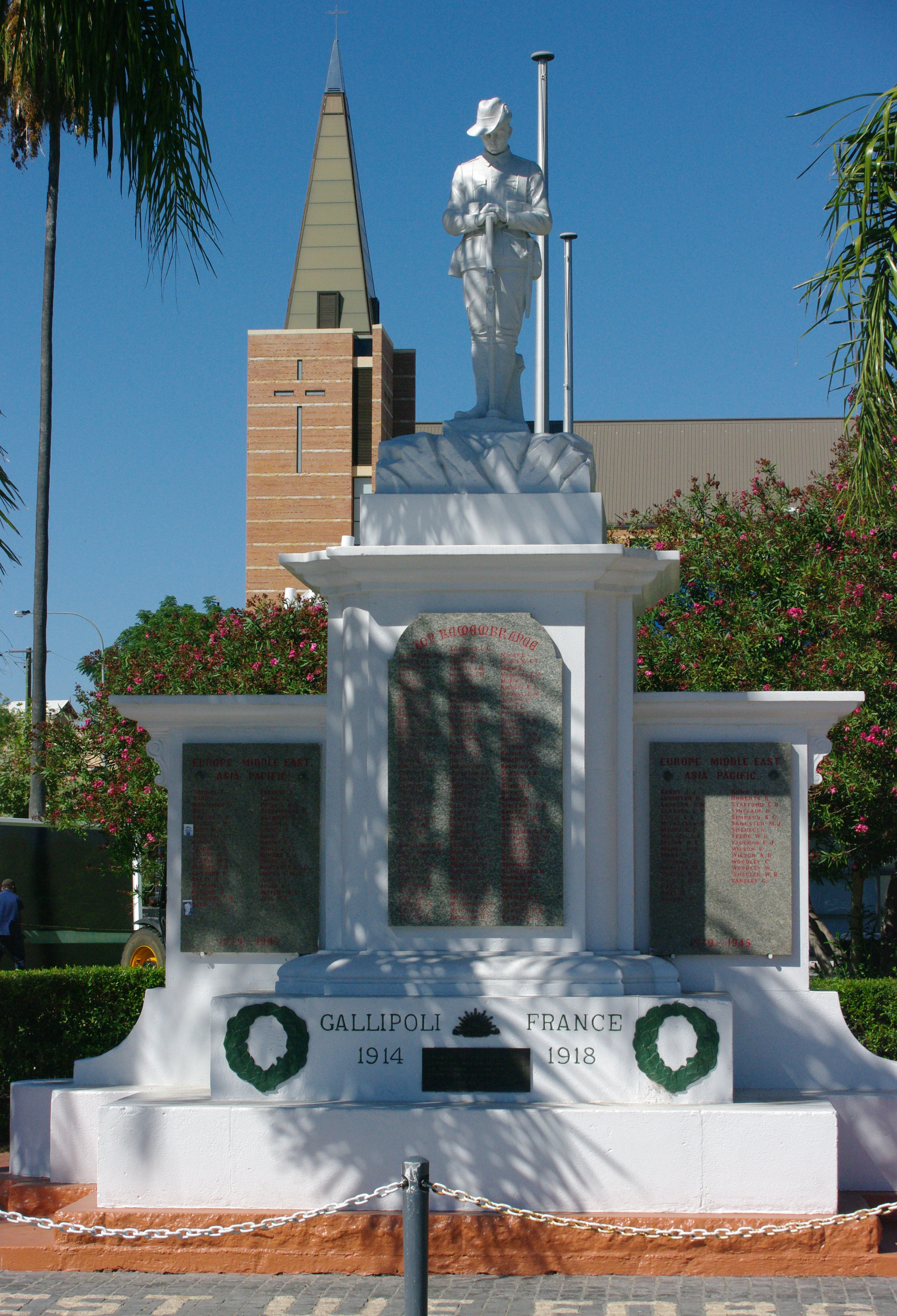 Bunbury war memorial, built 1920 unveiled by William Birdwood, 1st Baron Birdwood - spire of new catholic cathedral at rear